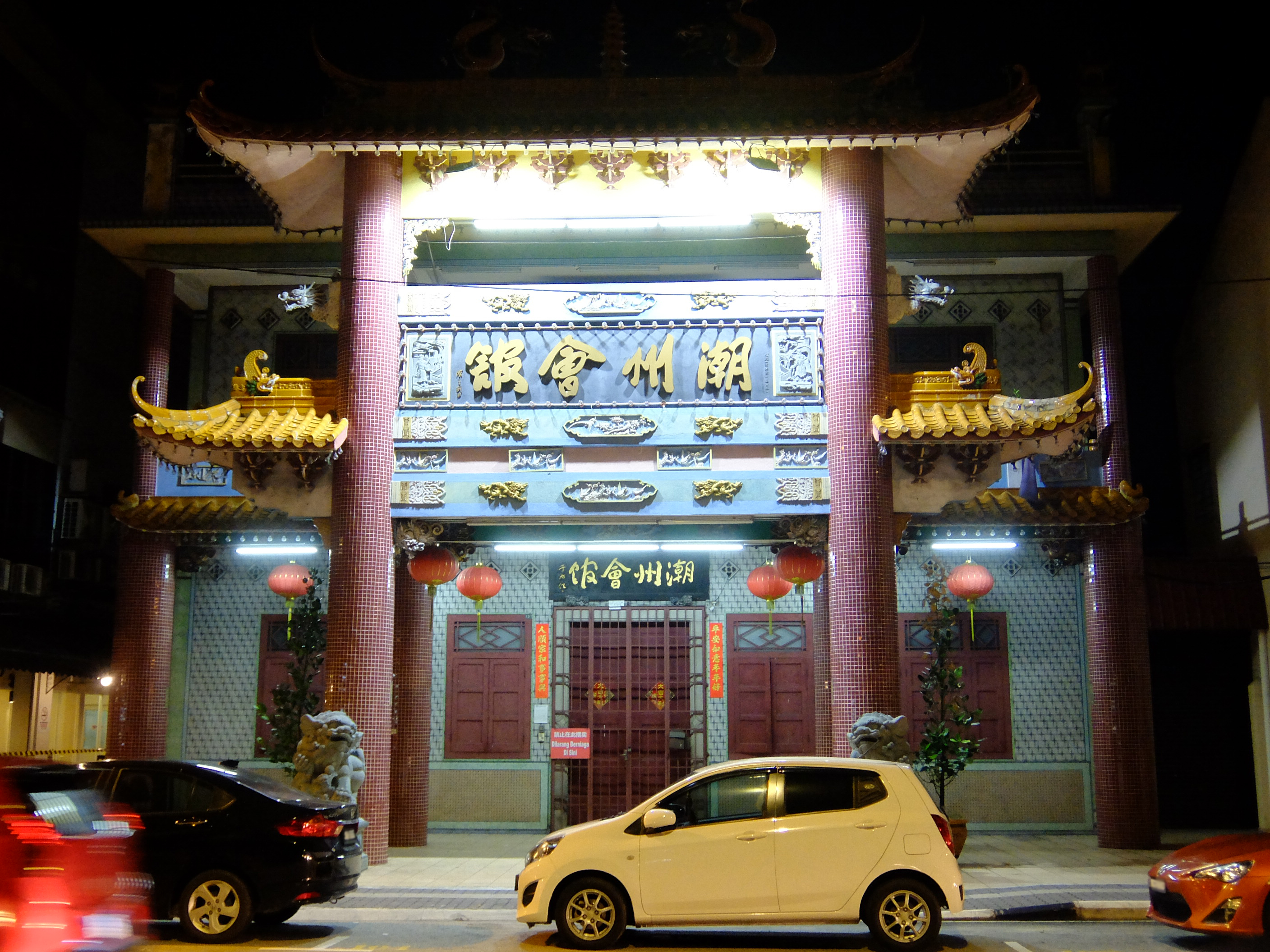 Muar Teochew Association, Bandar Maharani, Muar, Johor, Malaysia